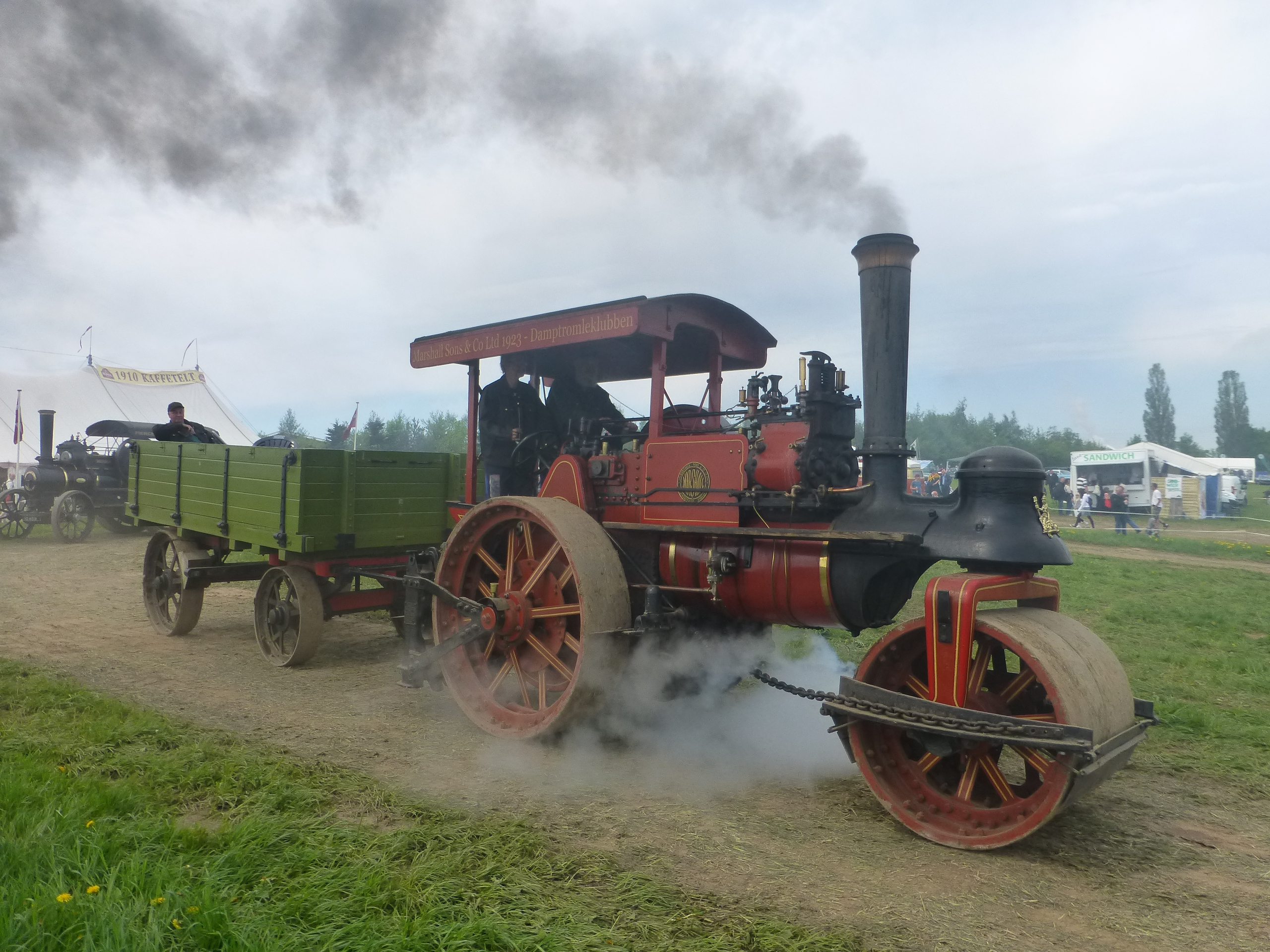 Old steam-powered vehicles at the heritage fair Græsted Veterantræf in Denmark.